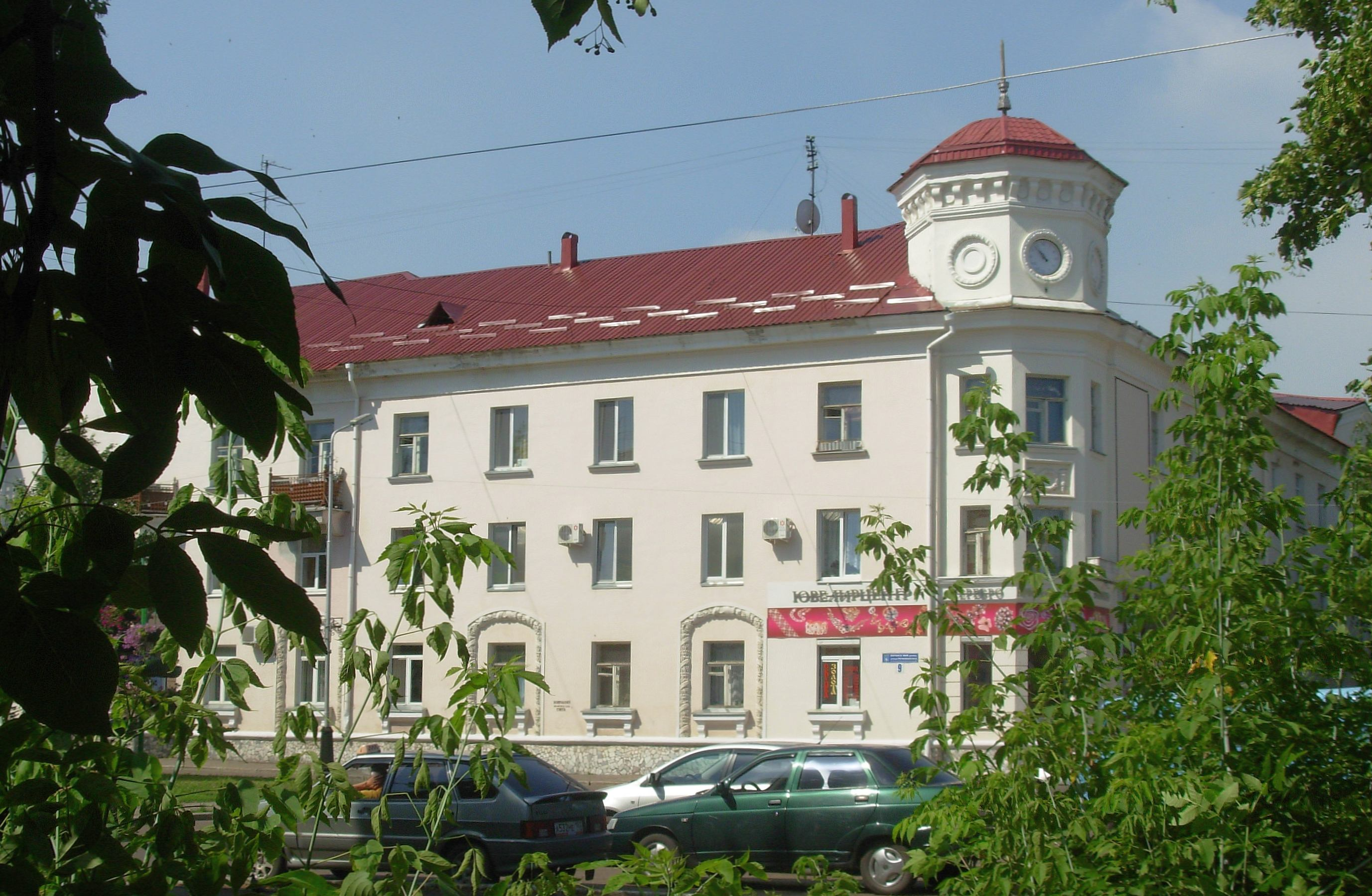 pervomaiskaya street salavat